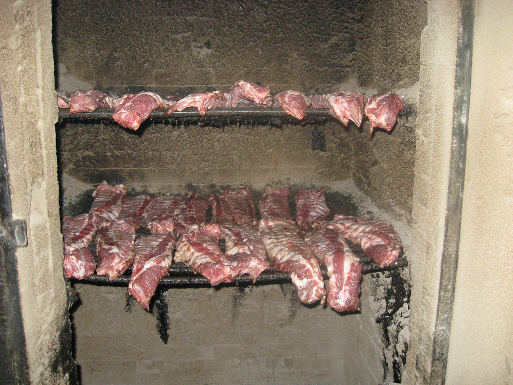 Pork ribs at the start of slow cooking in an above-ground barbecue "pit" at Leonard's Pit Barbecue - Memphis, Tennessee, USA